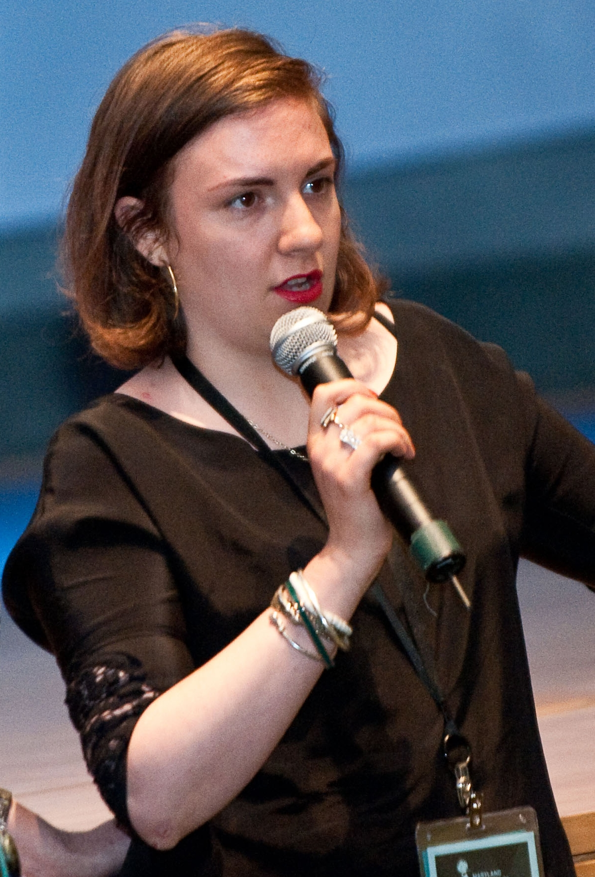 Lena Dunham at MFF 2010. Photo by Alison Harbaugh for the Maryland Film Festival